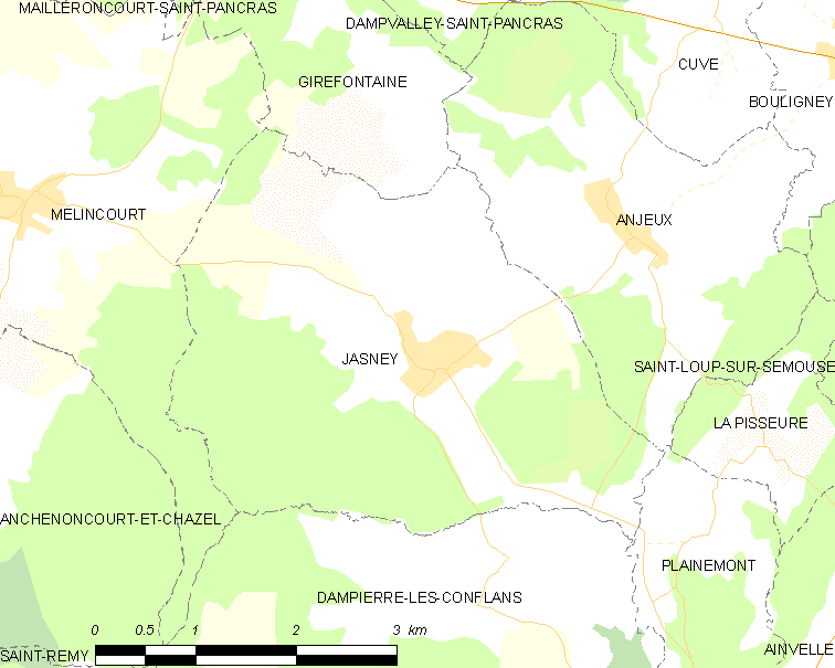 Map of French municipality